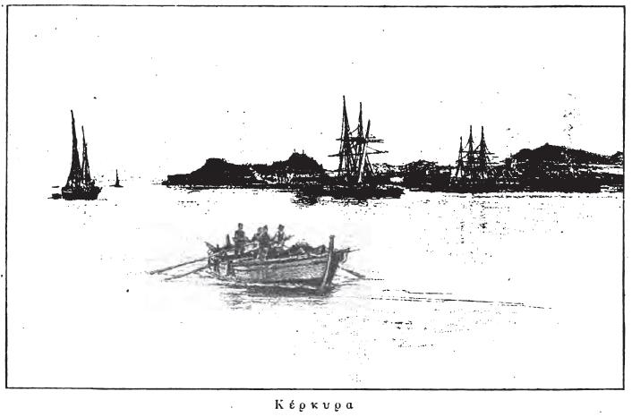 Hestia (1876) Author: Diomedes, Paulos Subject: Greek literature, Modern; Greek periodicals Publisher: [Athēnēsi : s.n. Year: 1894 Possible copyright status: NOT_IN_COPYRIGHT Language: Greek Digitizing sponsor: Google Book from the collections of: Harvard University Collection: americana]